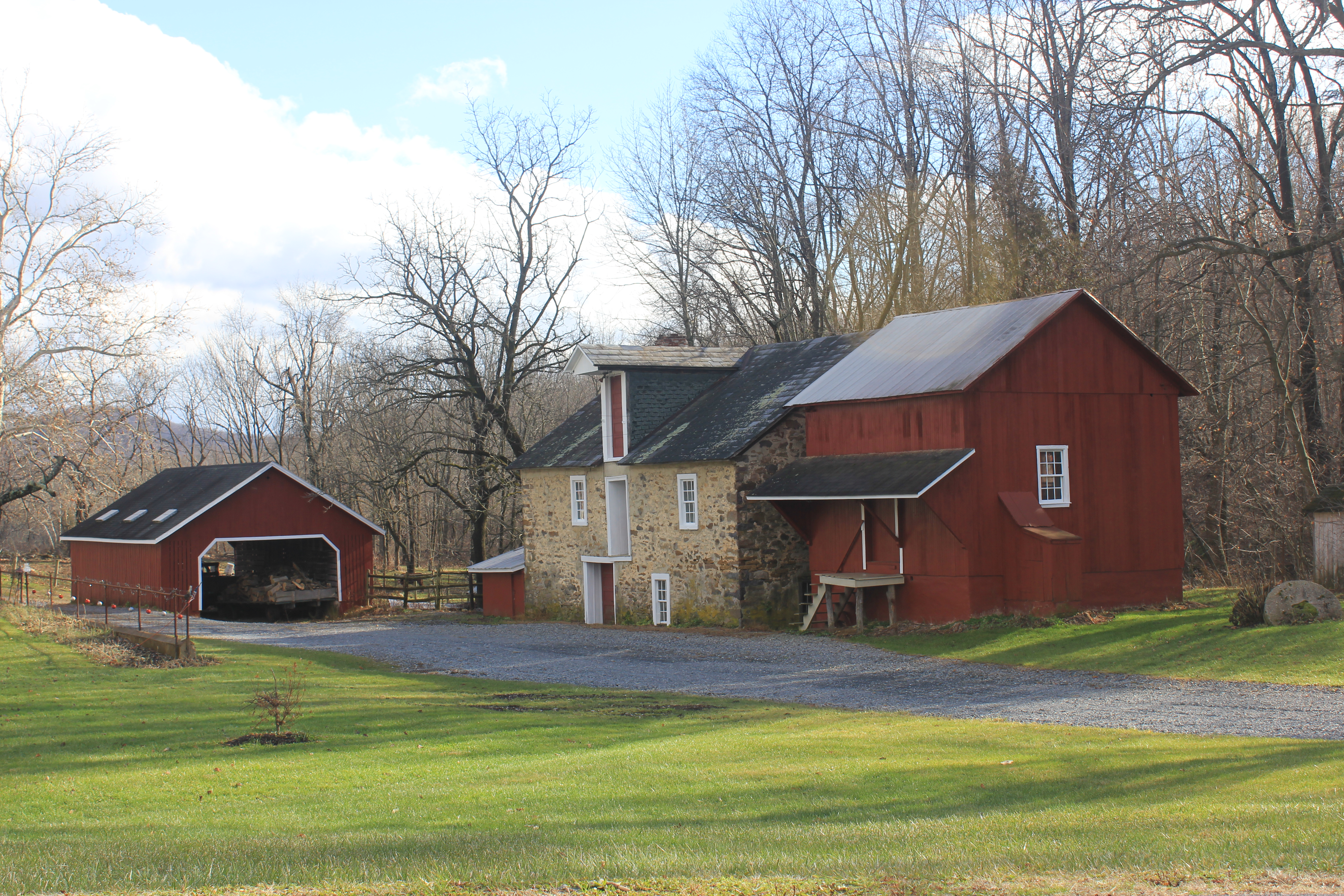 Long-Hawerter Mill, Alburtis Pa.